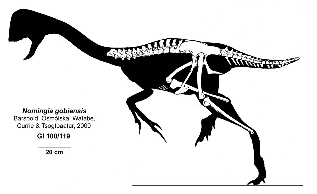 Skeletal reconstruction of Nomingia gobiensis.